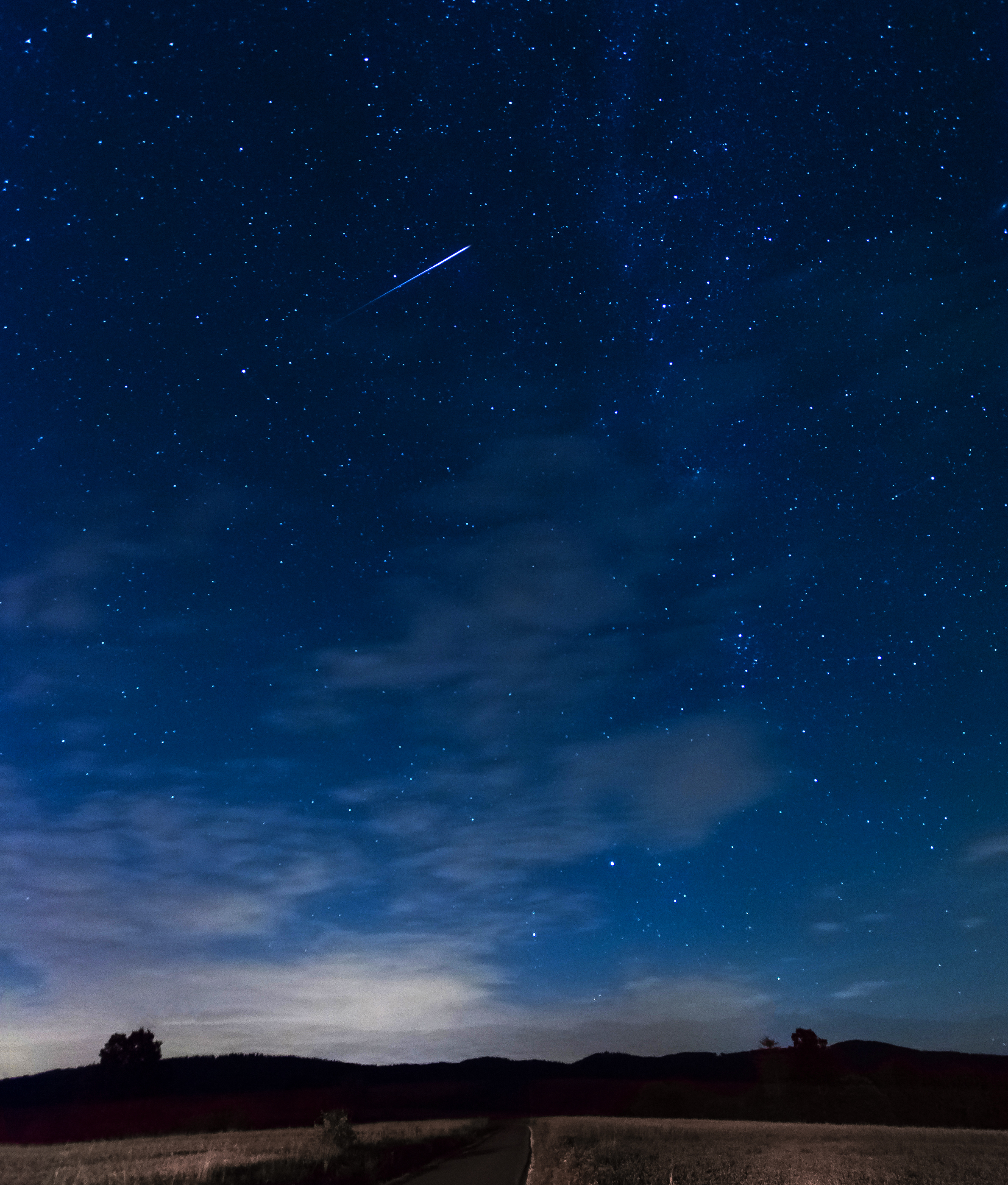 Meteor occasional, photographed during the maximum of the Perseid swarm